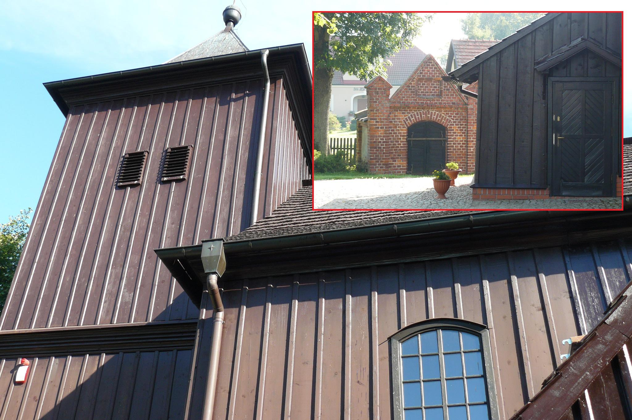 Church in Opatówko, Września.